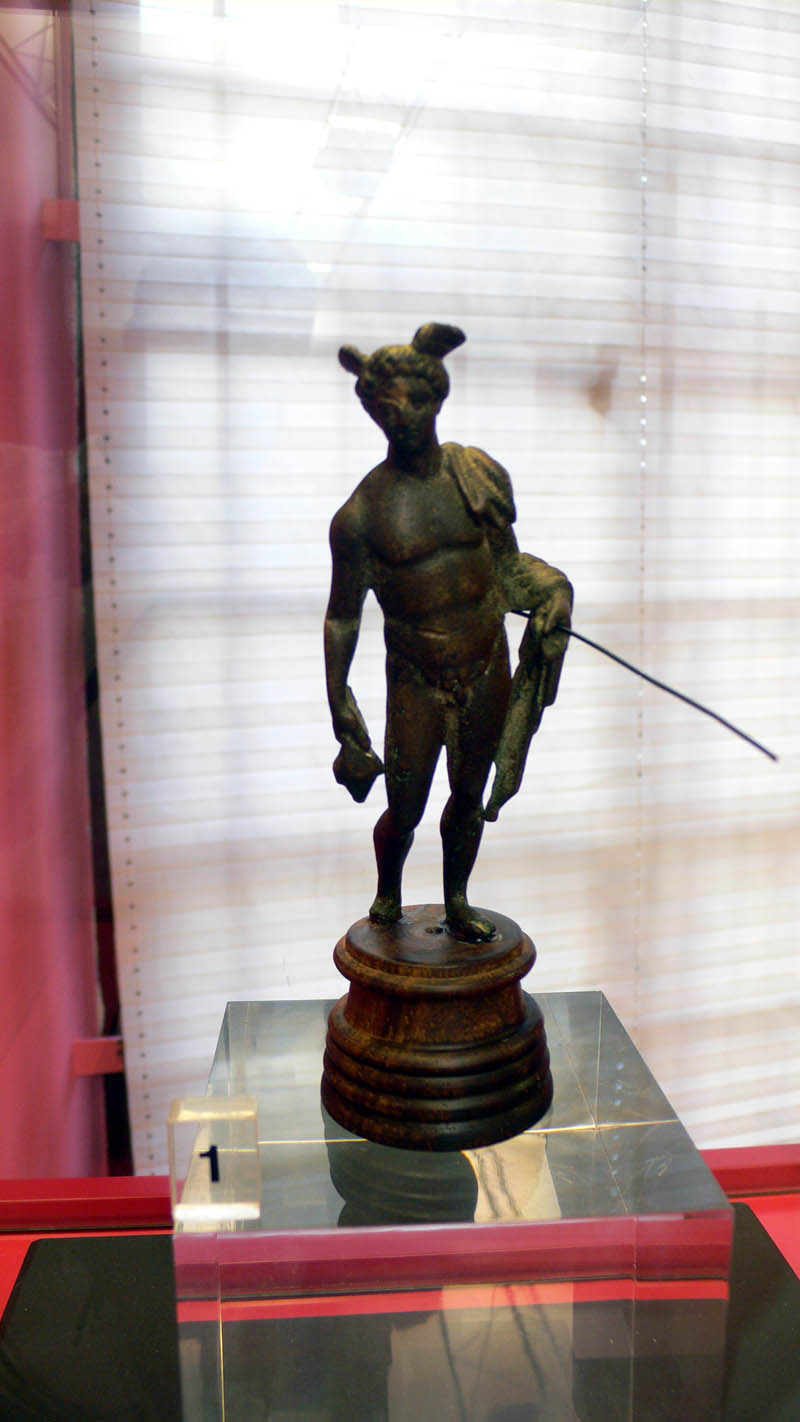 Roman bronze depicting Mercury from Coy (Lorca, Spain). 2nd c. Archaeological museum of Lorca